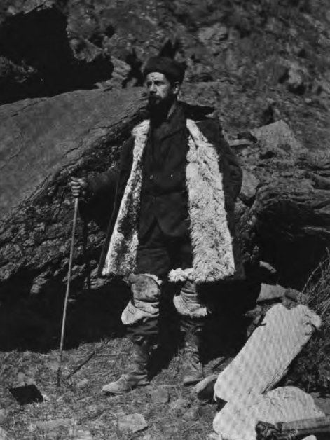 Photograph of Frank N Meyer (1875-1918) Department of Agriculture explorer.